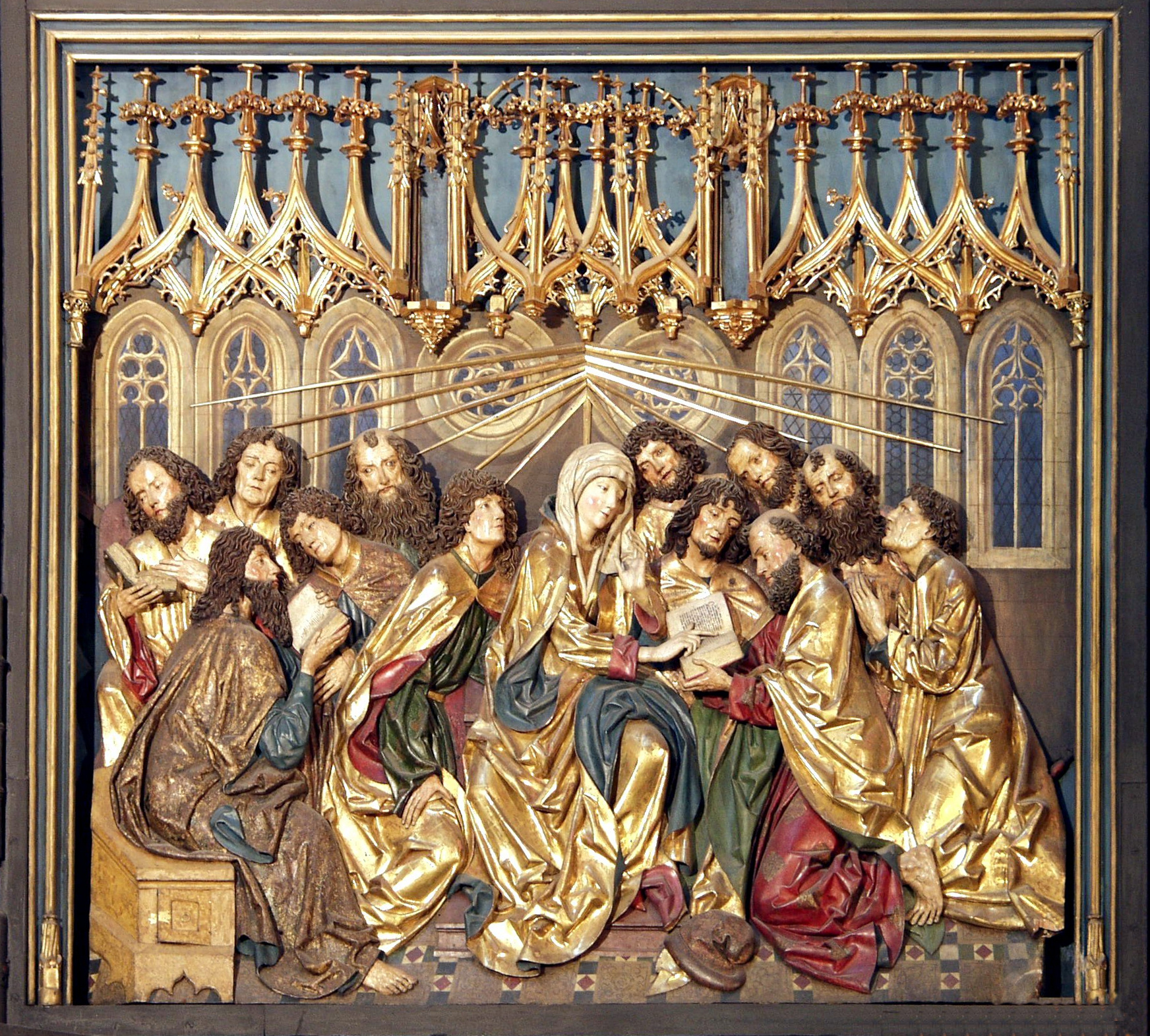 Altar of Veit Stoss, Right bottom, Coming of the Holy Spirit, St. Mary's Church, Krakow, Poland